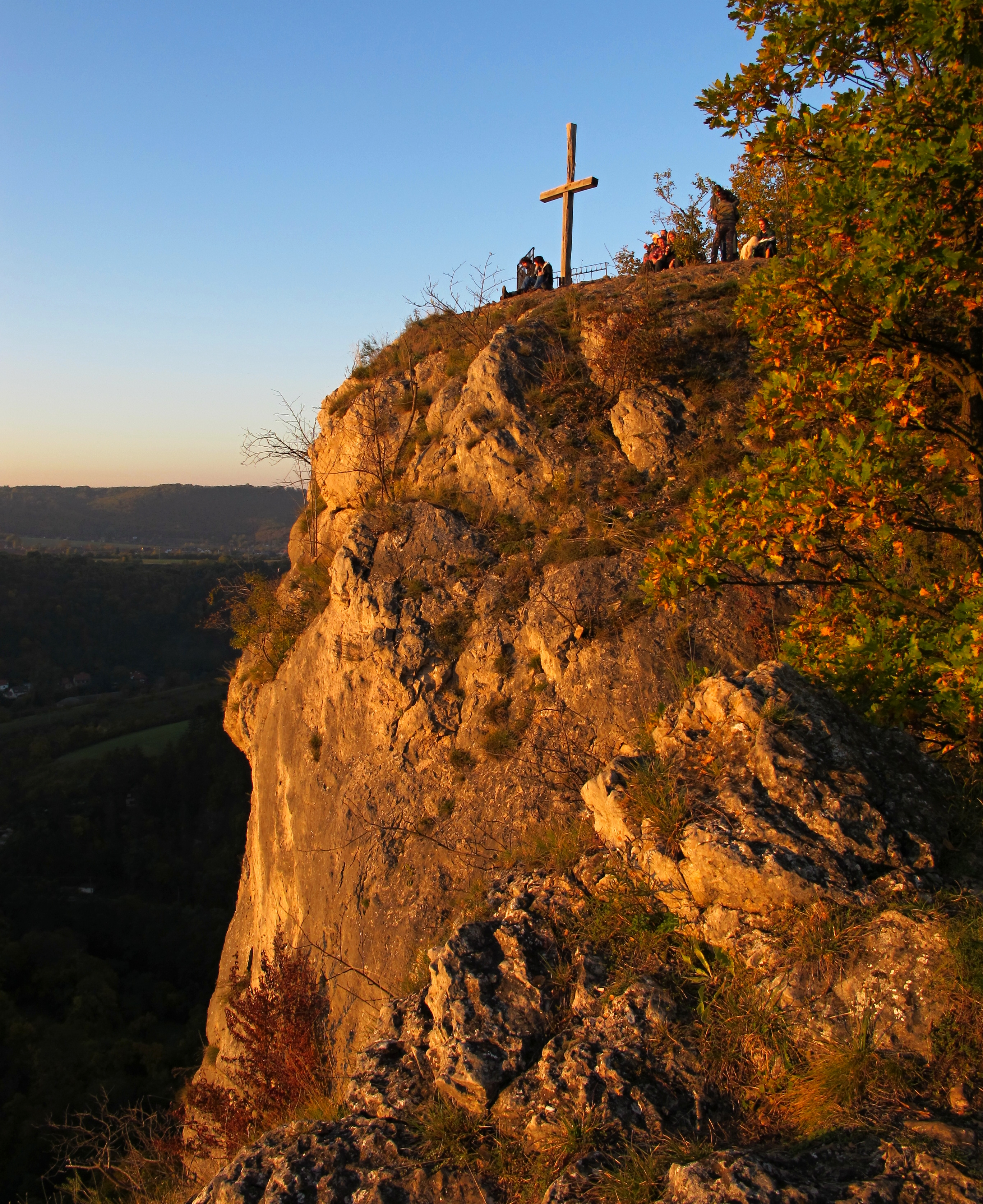 Automn near Svatý Jan pod Skalou, Beroun District